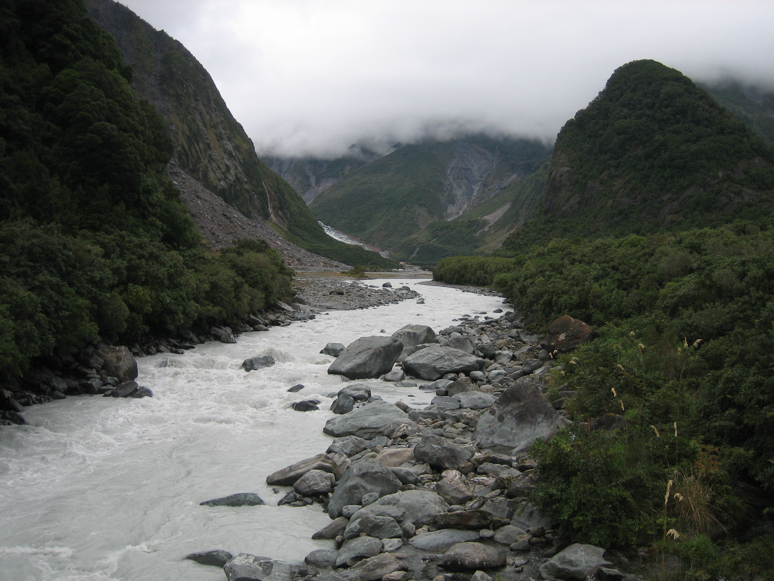 River at the base of the Fox Glacier (you can see the terminus in the distance)